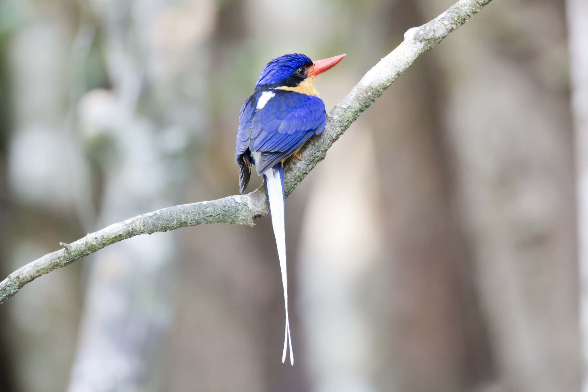 This was a very hard shot - out the window, hand held, low light, a 1dx and a canon 800, with the motor still running. These birds are small, and very unusual. Mount Lewis, Julatten north queensland